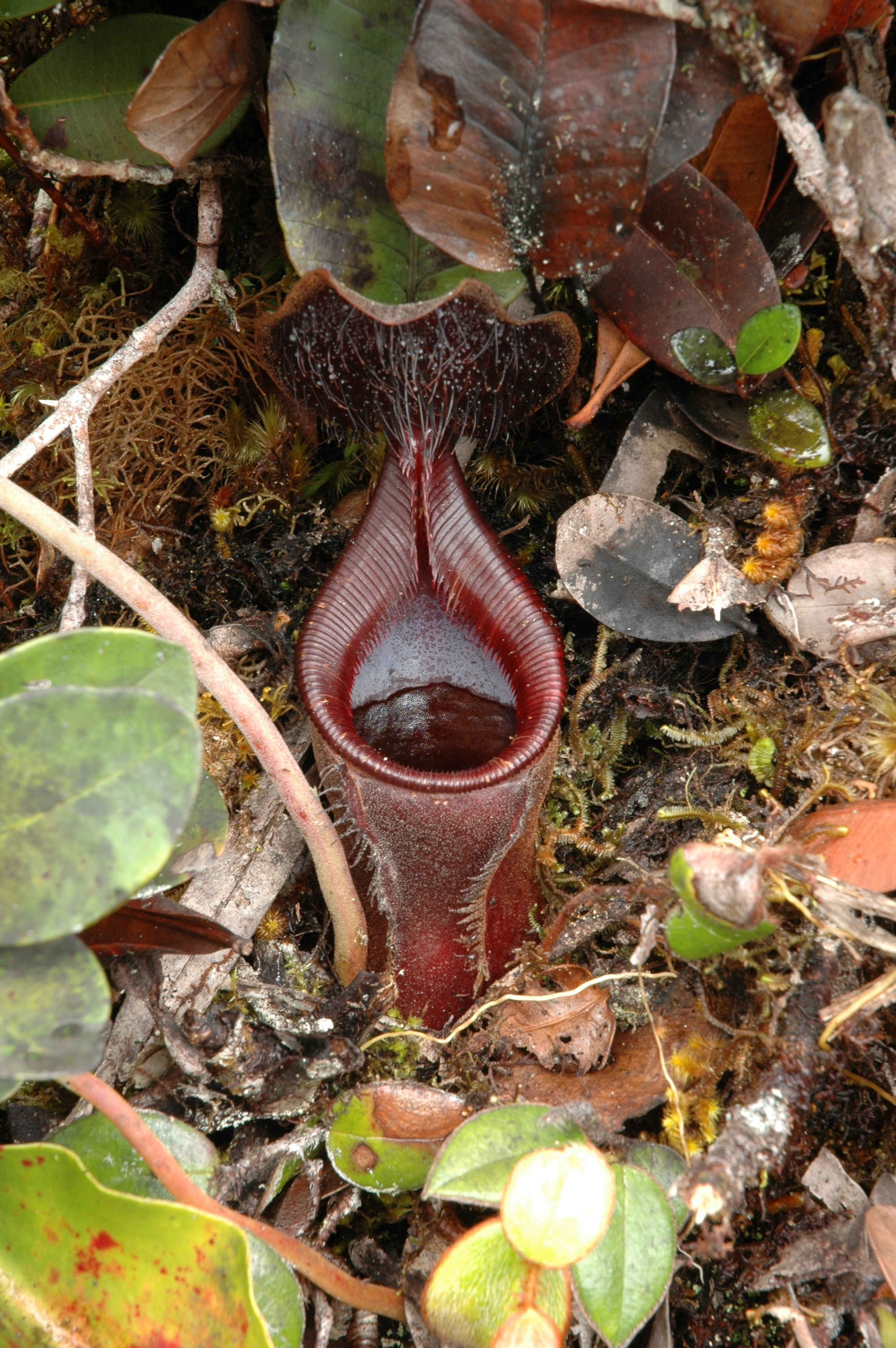 Nepenthes lowii lower pitcher Gunung Murud by Jeremiah Harris